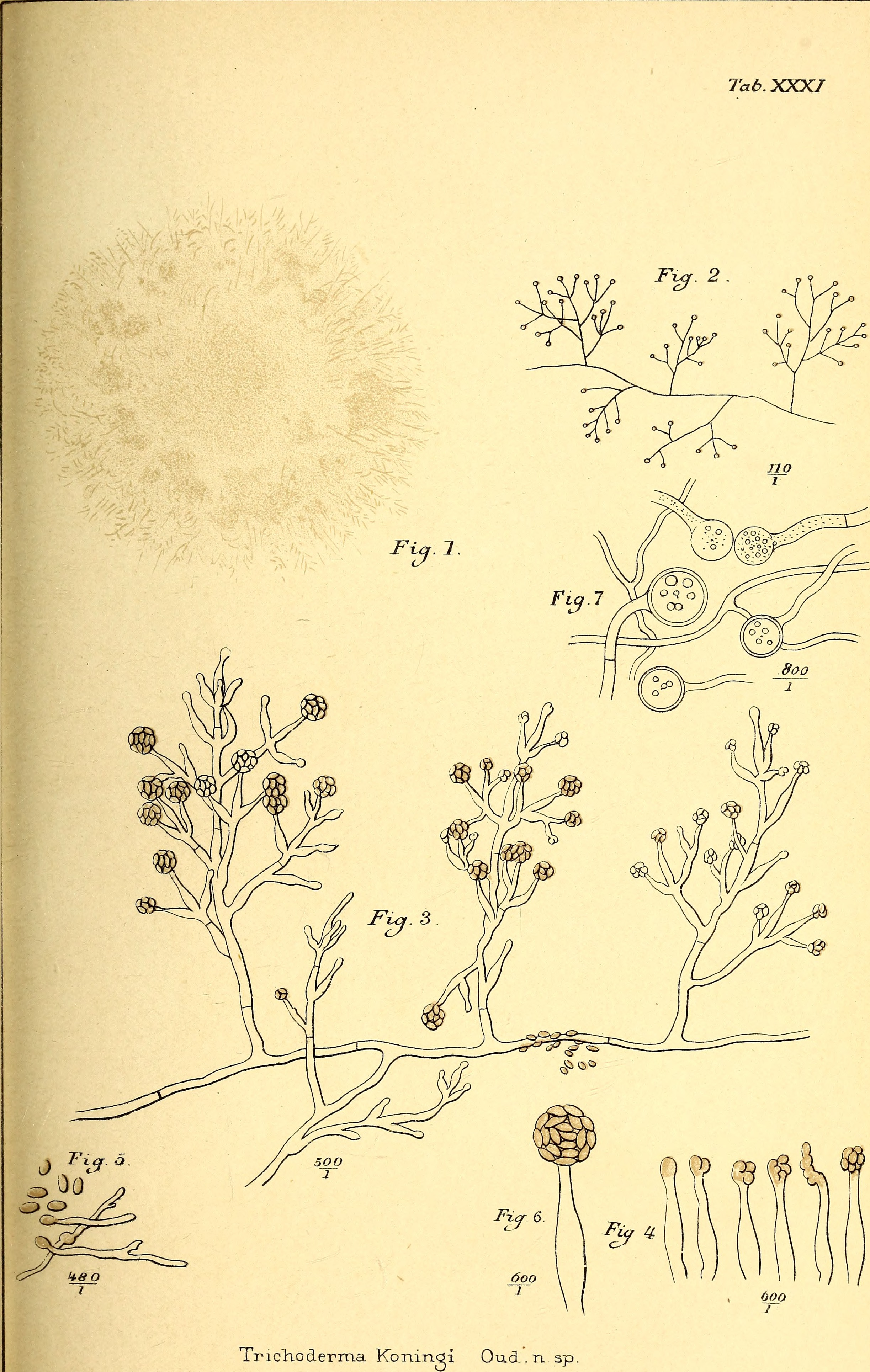 Title: Archives néerlandaises des sciences exactes et naturelles Year: 1866 (1860s) Authors: Subjects: Science; Natural history Publisher: La Haye : Société hollandaise des sciences à Harlem Text Appearing Before Image: Arch Neex-l^Sér T W. ^^c^ Text Appearing After Image: C . J. Kohing del.